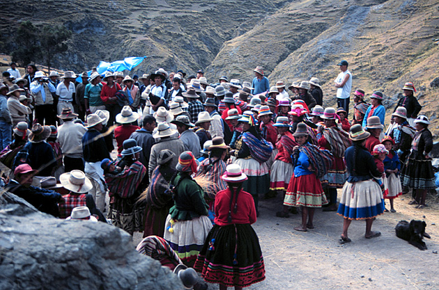 Native bridge builders gather during the annual renewal of the last Inca grass-rope bridge.